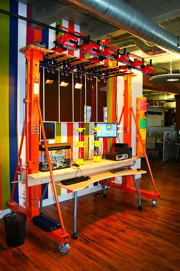 Guy Cobb's "Solar Greenbench"